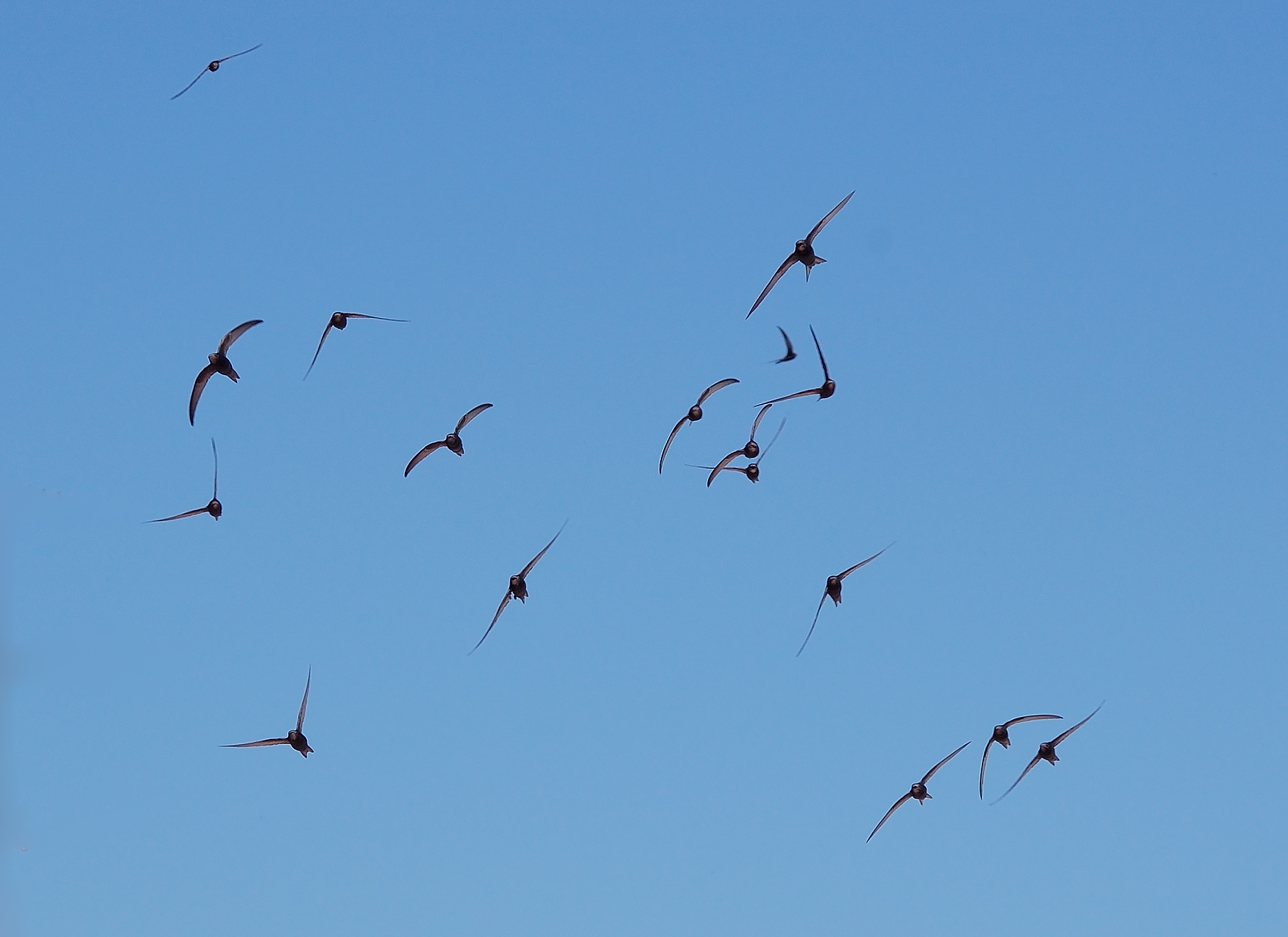 A flock of common swift (apus apus) flying